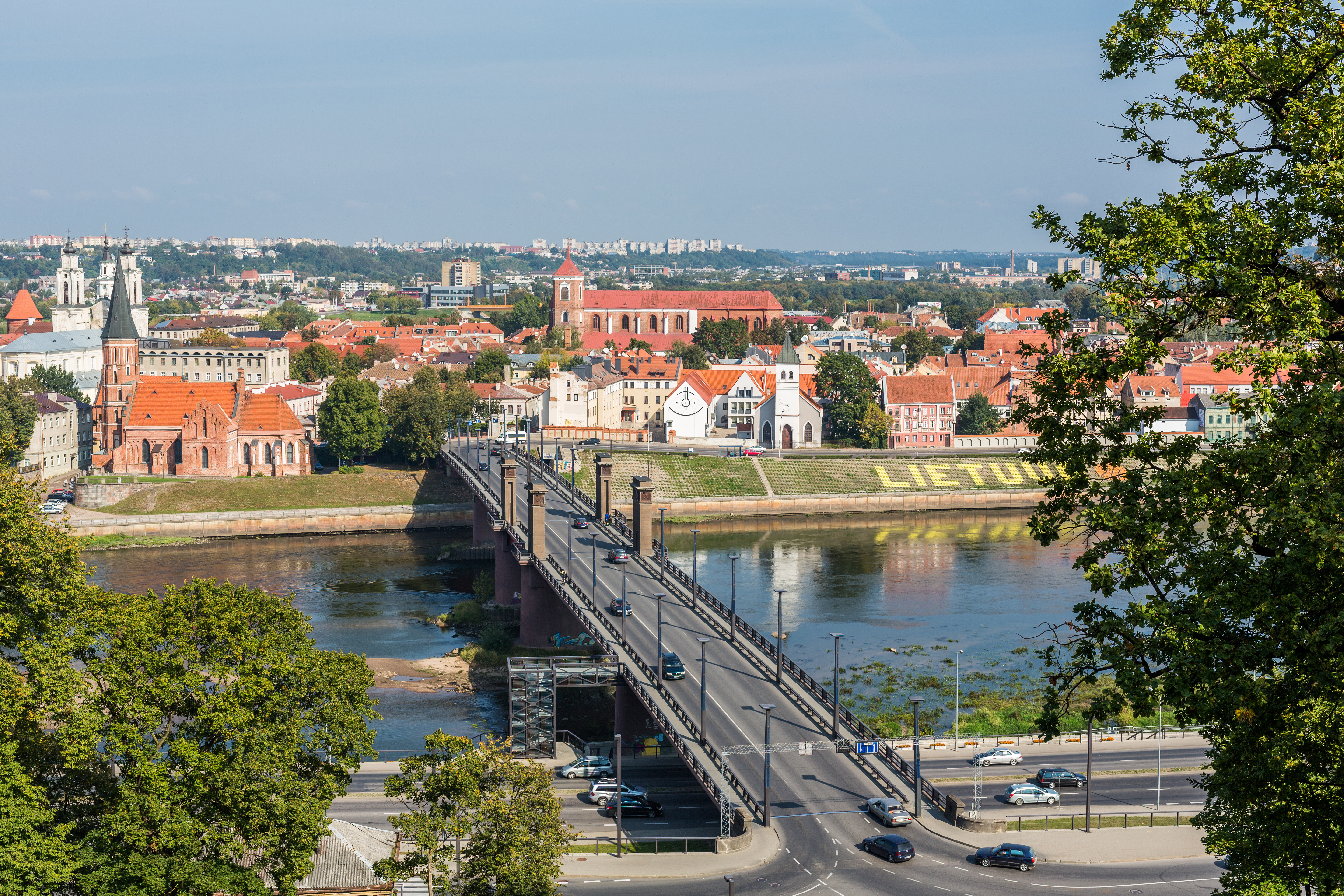 Vytautas the Great Bridge from hill, Kaunas, Lithuania